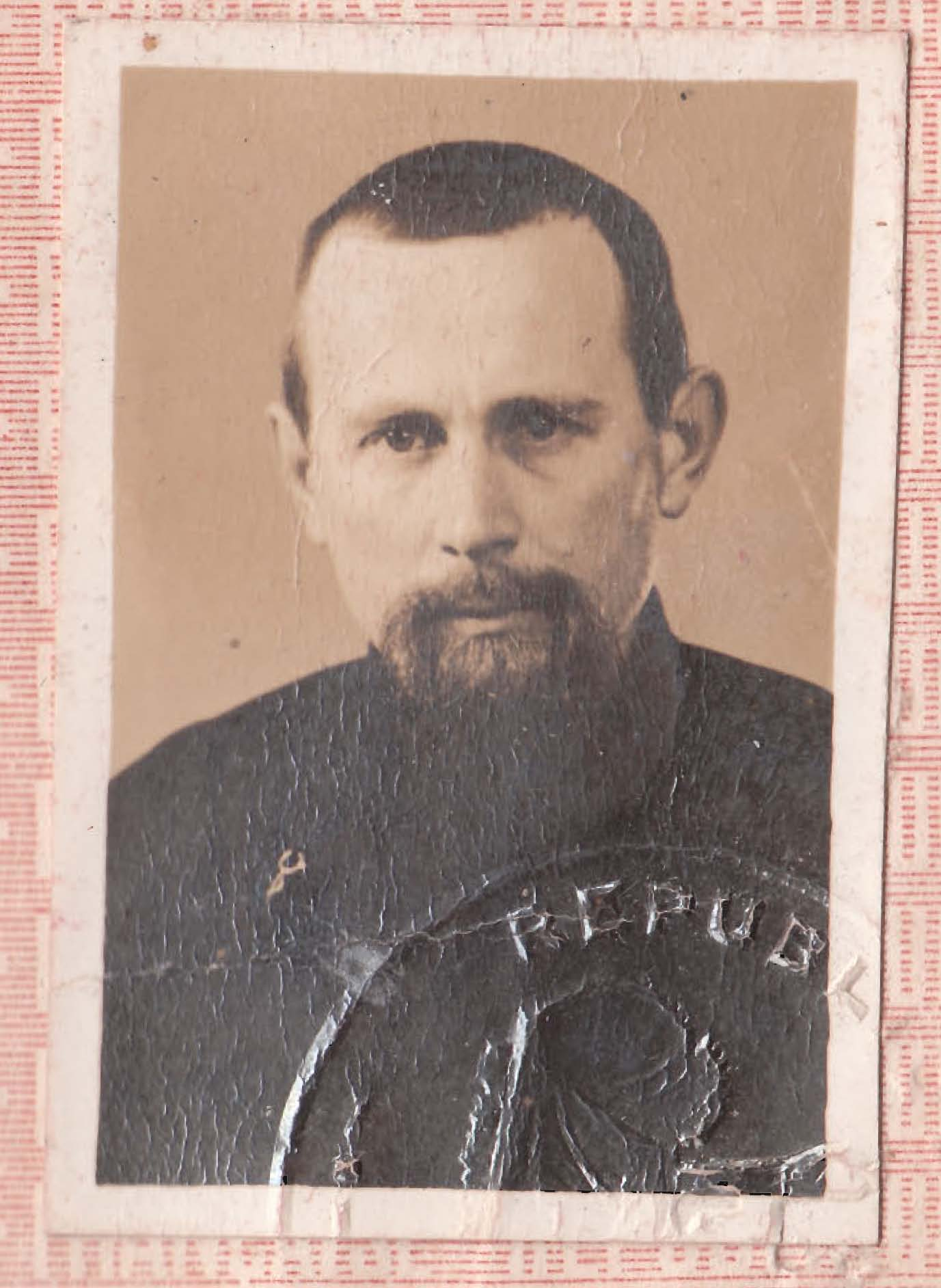 This is a picture of Henri Pinault from his passport issued in 1945 by French officials in Chongqing, China. Pinault was a Catholic missionary and the last Roman Catholic Bishop of Chengdu. I purhcased this passport in 2006 in Chengdu, China and scanned this picture.